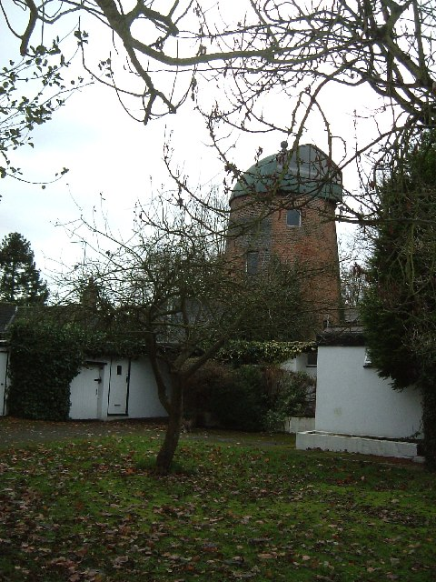 The Windmill, Tring. Hidden away at the top of Miswell Lane just before it meets Icknield Way, is Tring's sole remaining Windmill (as far as I know !). It has no sails though, and is now a private house.